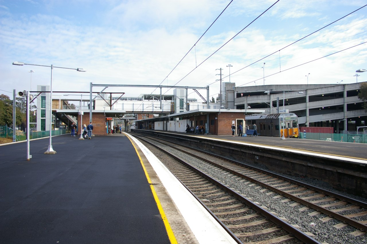 This image was made by me. It shows a view of Seven Hills Railway Station looking west during the extensive upgrade in 2007. Note the multi storey commuter carpark adjacent